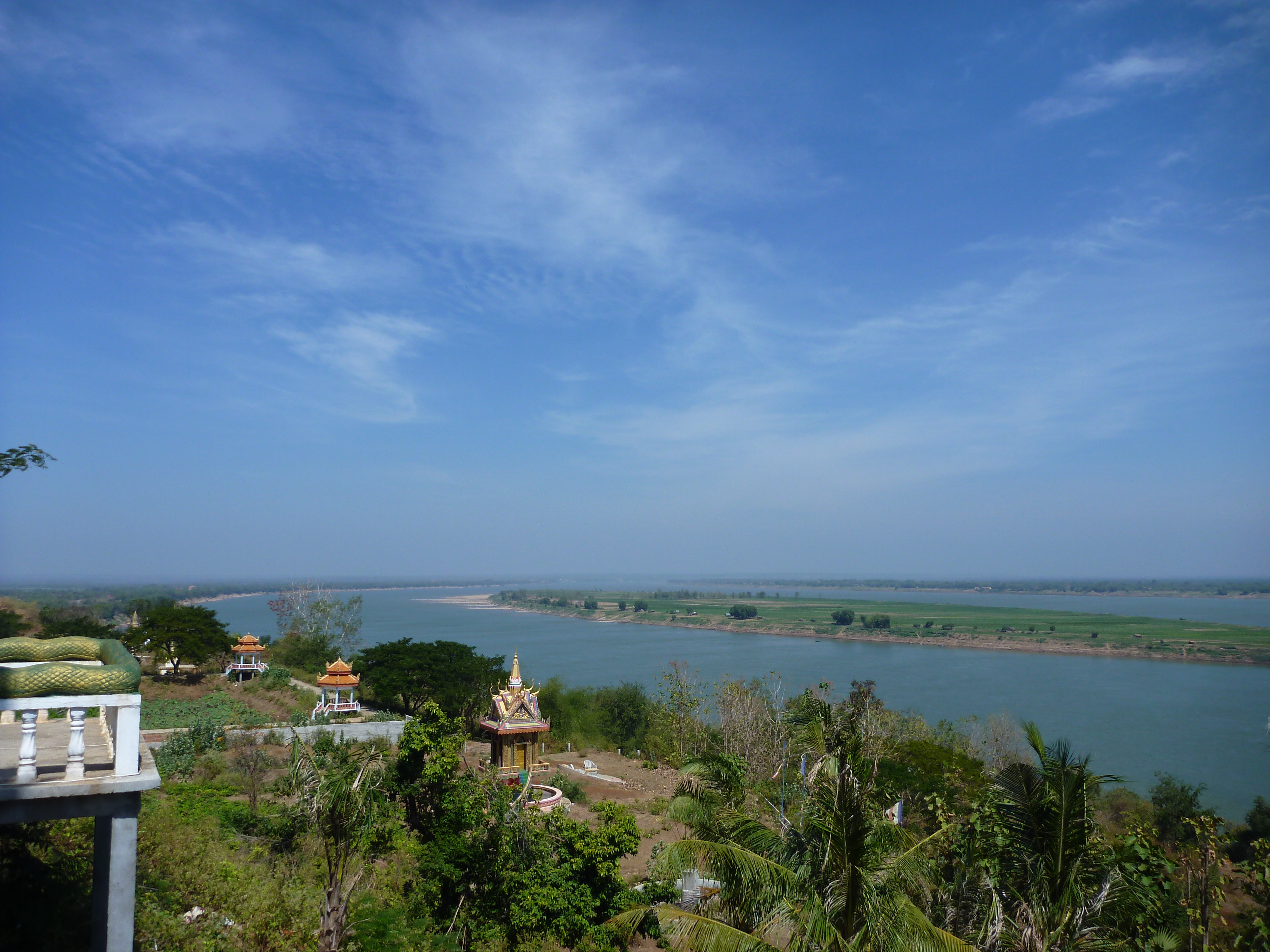 View from Han Chey Temple direction Khum Trea